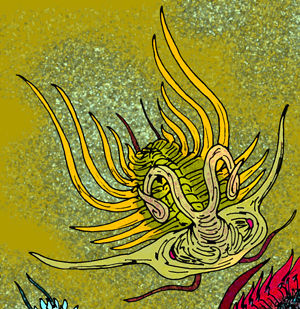 My reconstruction of the Lower Devonian trilobite, Dicranurus monstrosus, of Morocco. (C) Stanton F. Fink